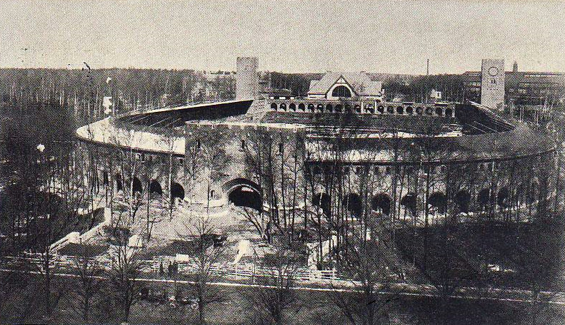 Official postcard from the 1912 Summer Olympics in Stockholm, Sweden.